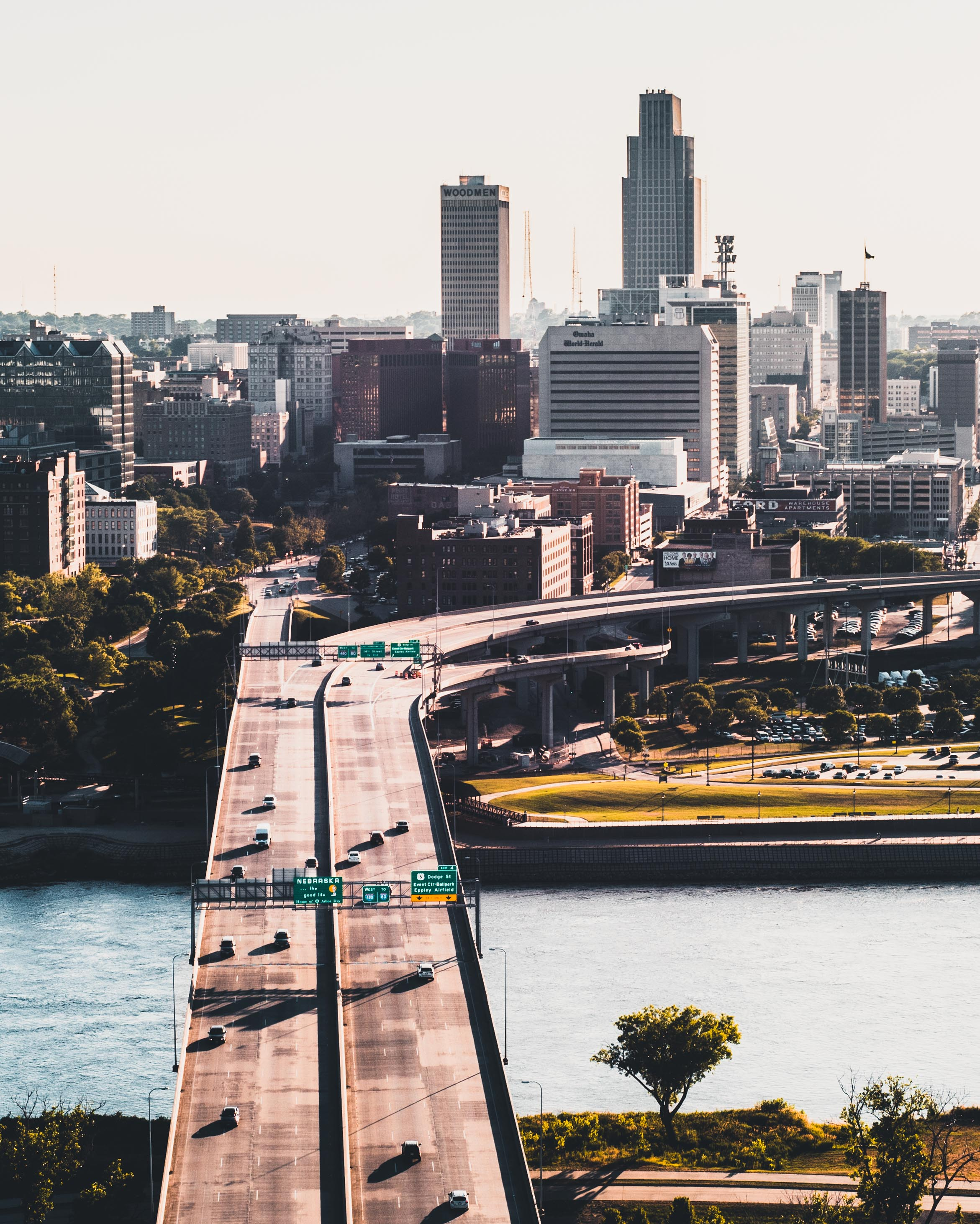 View of the Omaha skyline from the air above Council Bluffs